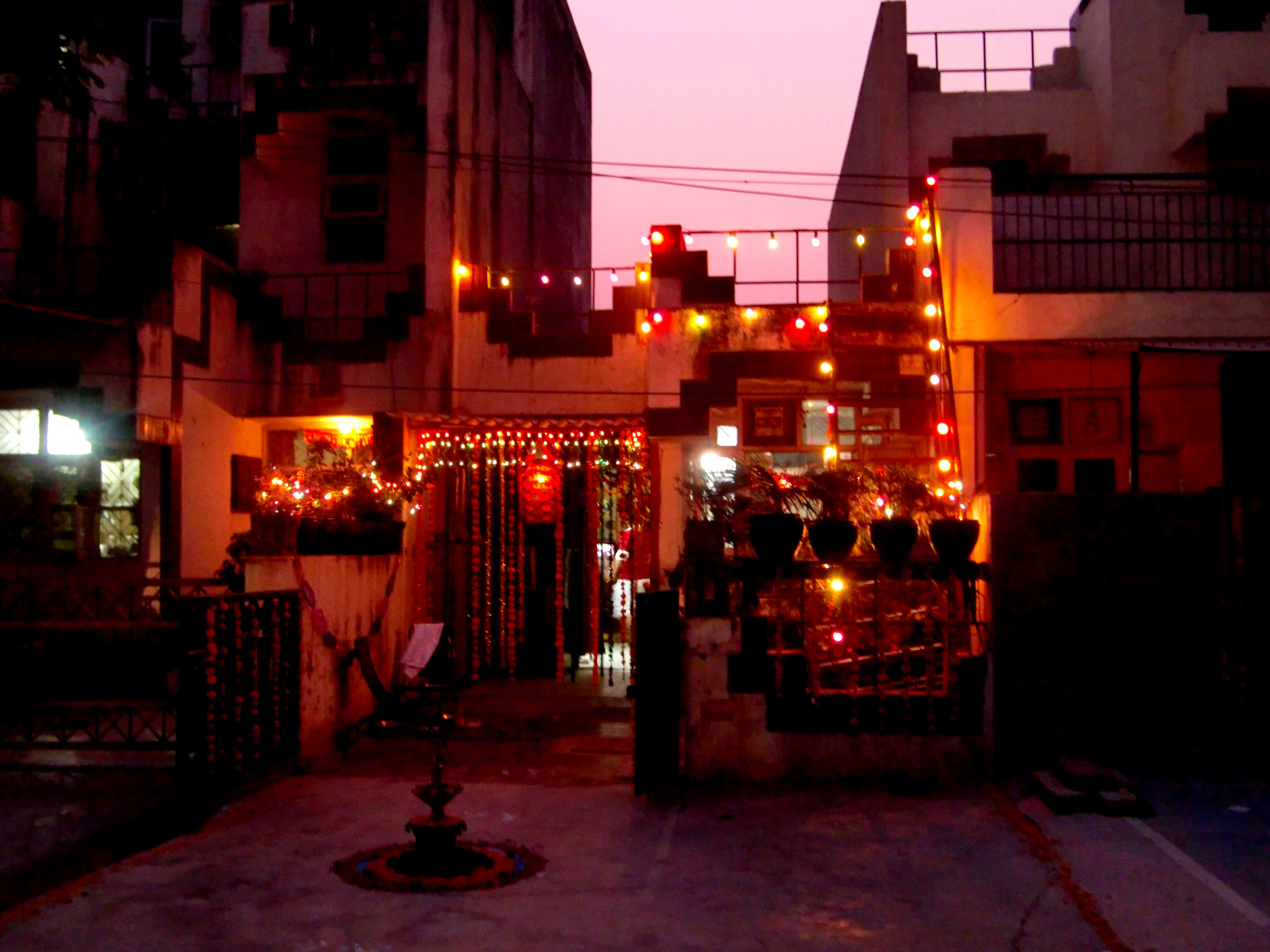 Diwali festival at private house in deli. many beautiful light